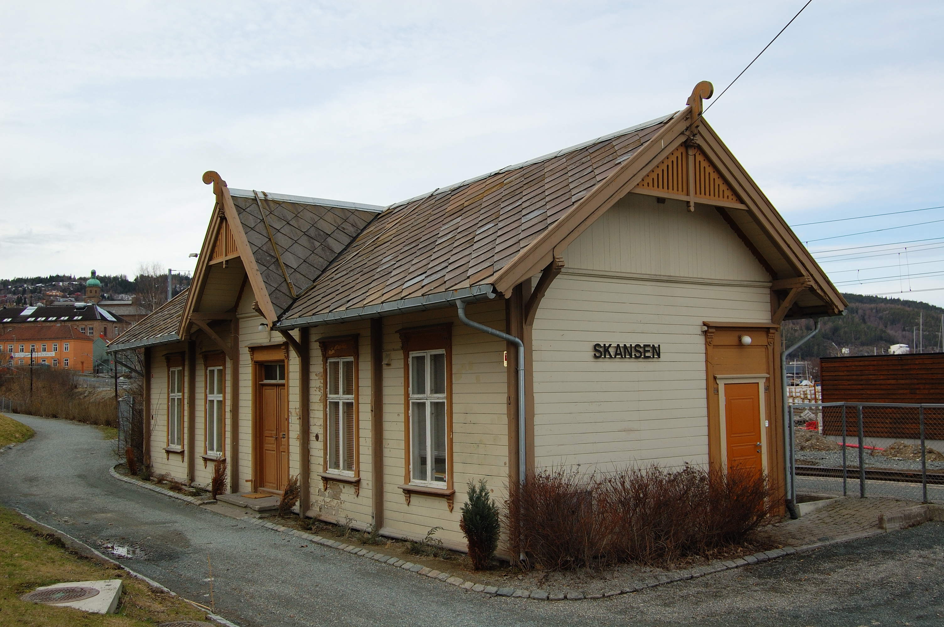 Skansen train station in Trondheim, Norway.